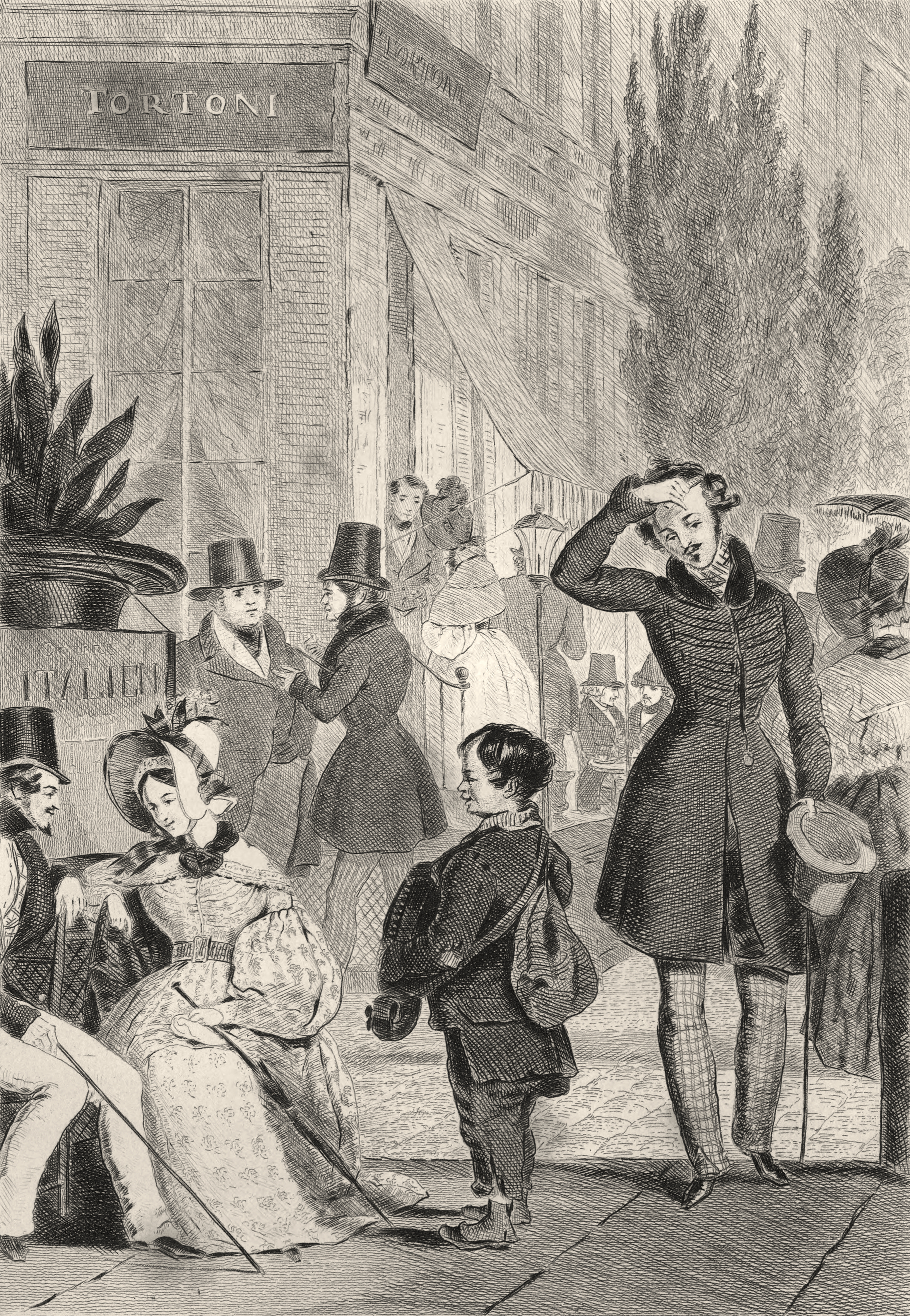 Located in the second and ninth arrondissements, the boulevard des Italiens was originally established in 1685, but it wasn't until 1783 that the boulevard was given its present name, inspired by the neighboring Théâtre des Italiens. As was the case for most of the major Parisian roadways, the boulevard des Italiens did not have any sidewalks until 1830, thereby impacting the development of outdoor social activities. The enormous growth in Parisian cafés, for example, is what brought the boulevard des Italiens its fame. Home to the city's most popular gathering places, the boulevard provided a place for the upper classes to mingle and stroll.